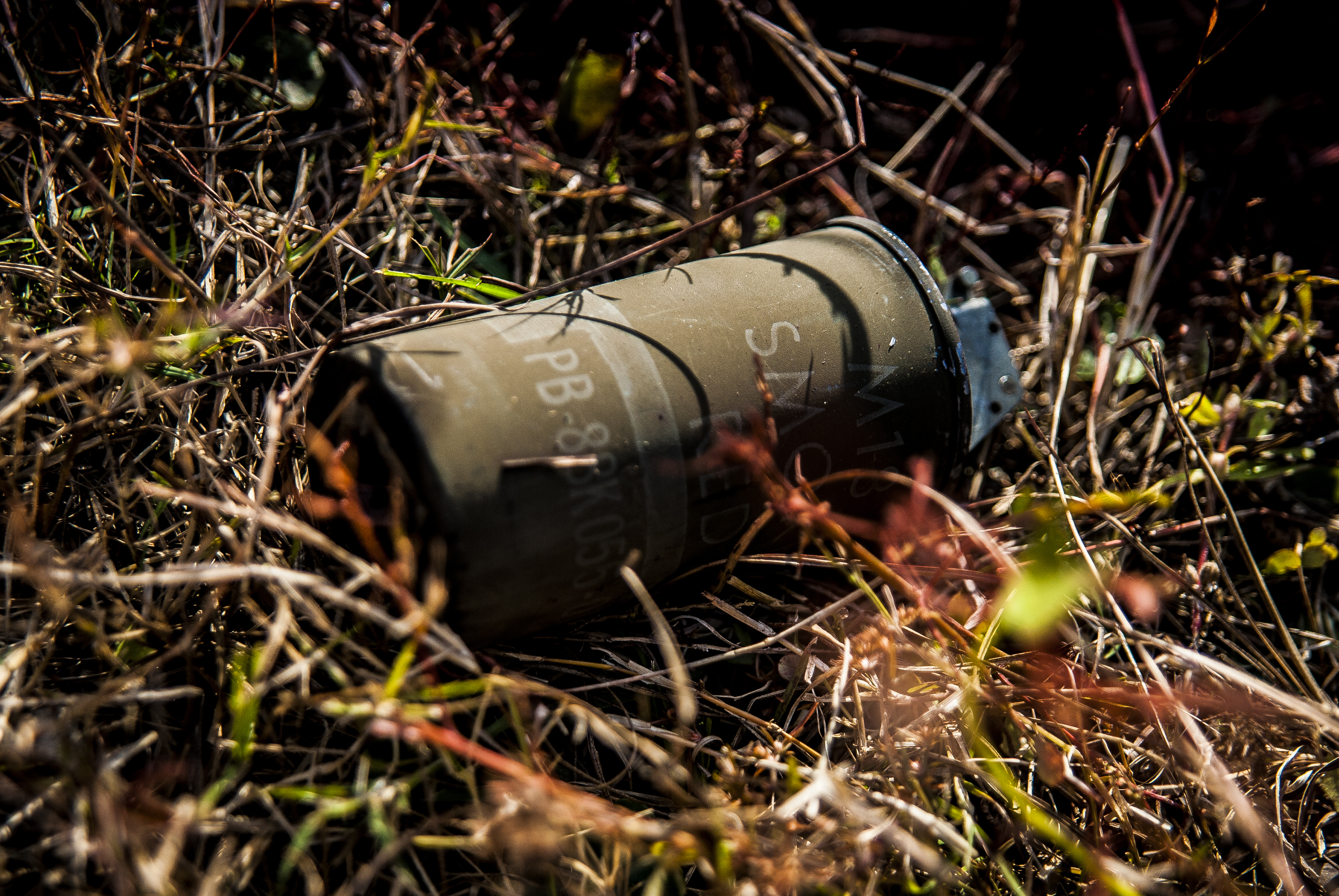 A smoke grenade lies in the grass after being thrown into a ditch during a Combat Readiness Training with the 628th Explosive Ordnance Squadron, Nov. 30, 2012, at Joint Base Charleston, S.C. Airmen attended an hourlong class to review safety procedures when handling grenades. (U.S. Air Force photo/ Senior Airman Dennis Sloan)